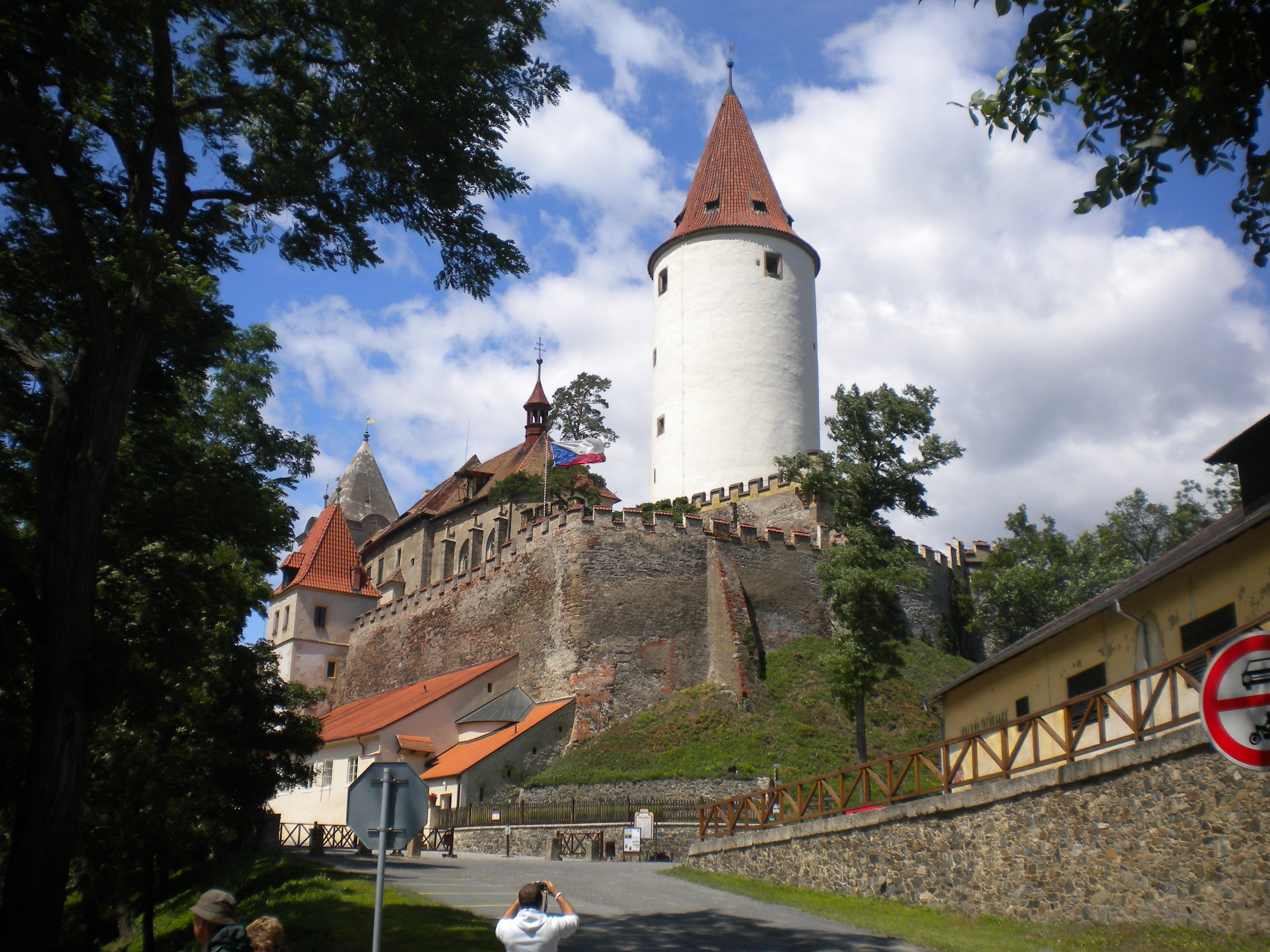 Yari